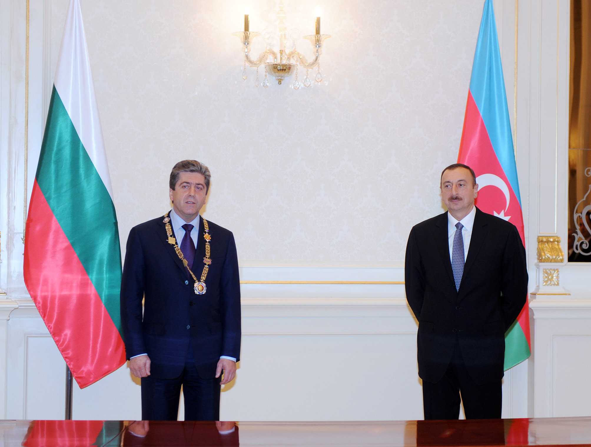 A ceremony was held to decorate Bulgarian President Georgi Parvanov and Ilham Aliyev with high awards